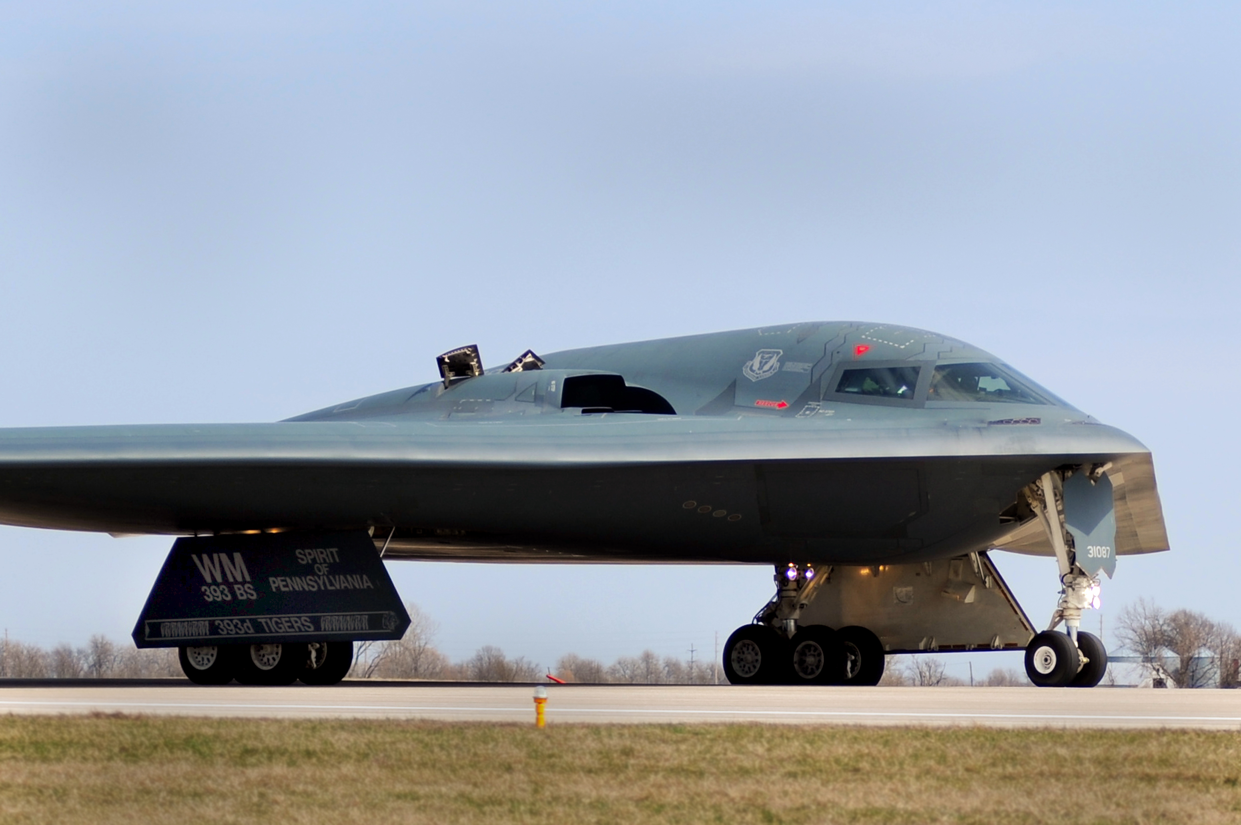 One of three U.S. Air Force B-2 Spirit stealth bomber aircraft returns to Whiteman Air Force Base, Mo., from a mission in supporting the no-fly zone over Libya, March 20, 2011, as part of Joint Task Force Odyssey Dawn. The no-fly zone was imposed by the United Nations Security Council Resolution 1973 authorizing military action.